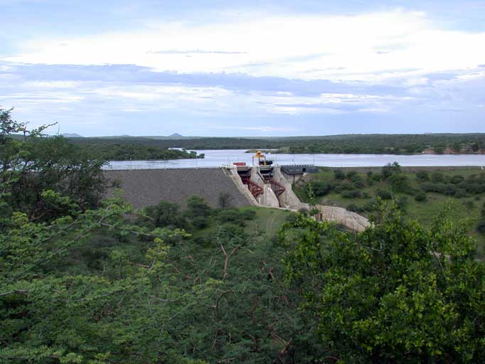 Picture of the S. Von Bach Dam, a waterreservoir in Namibia